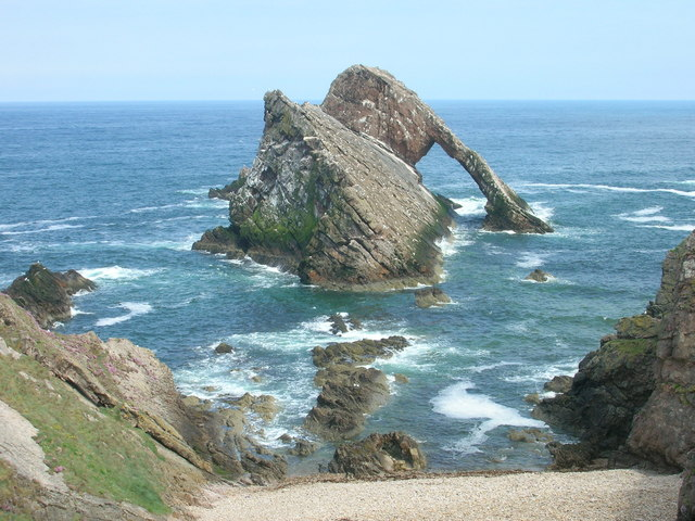 Bow Fiddle Rock Supposed to resemble the fiddler's bow. Looks more like a pelican to me.